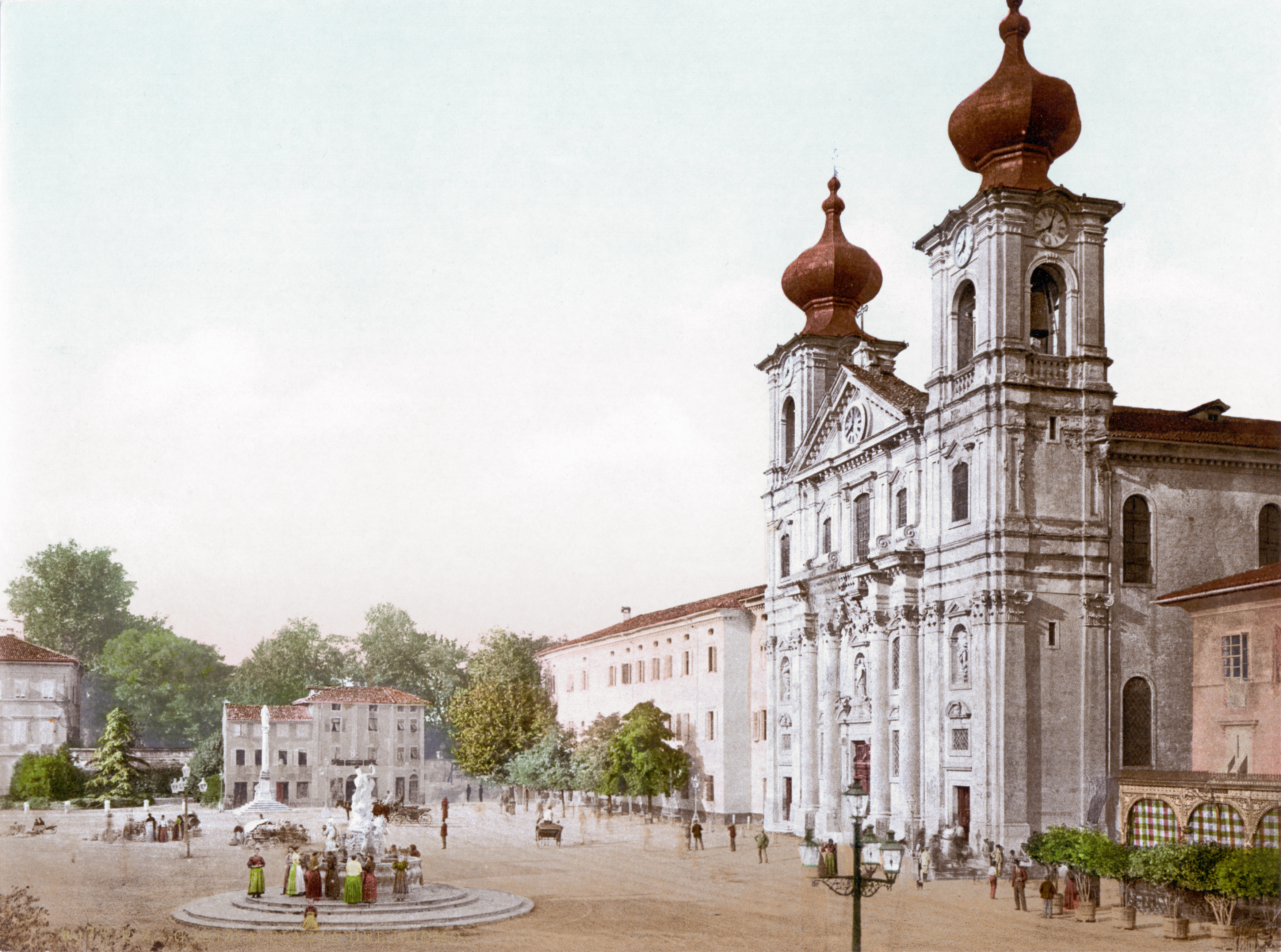 Church of Sant Ignatius in Gorizia.